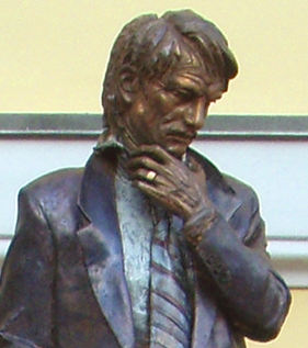 Monument to Andrei Tarkovsky at entrance of Gerasimov Institute of Cinematography